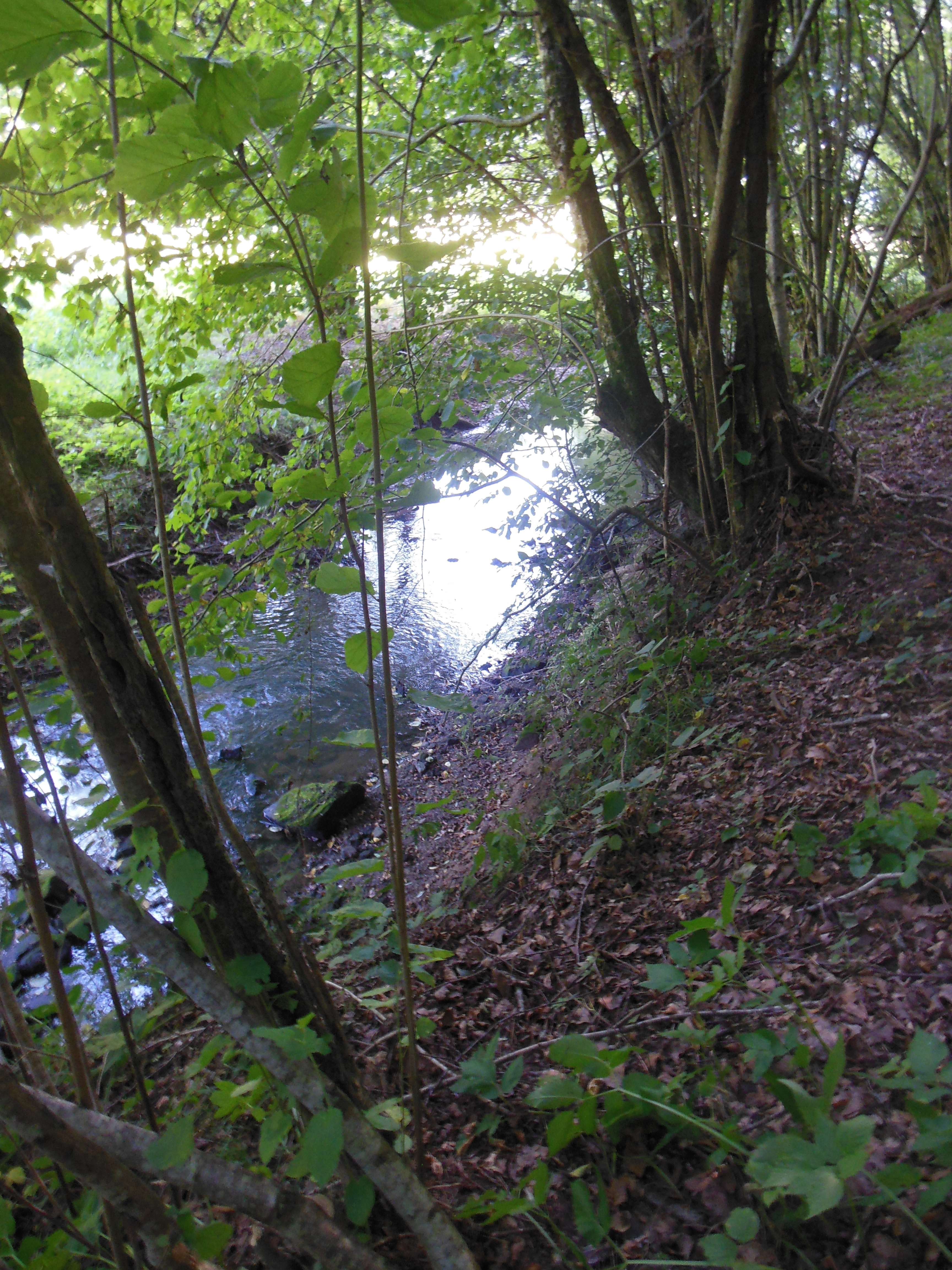 Buttenbach-Muenzbach Brook in Montbronn